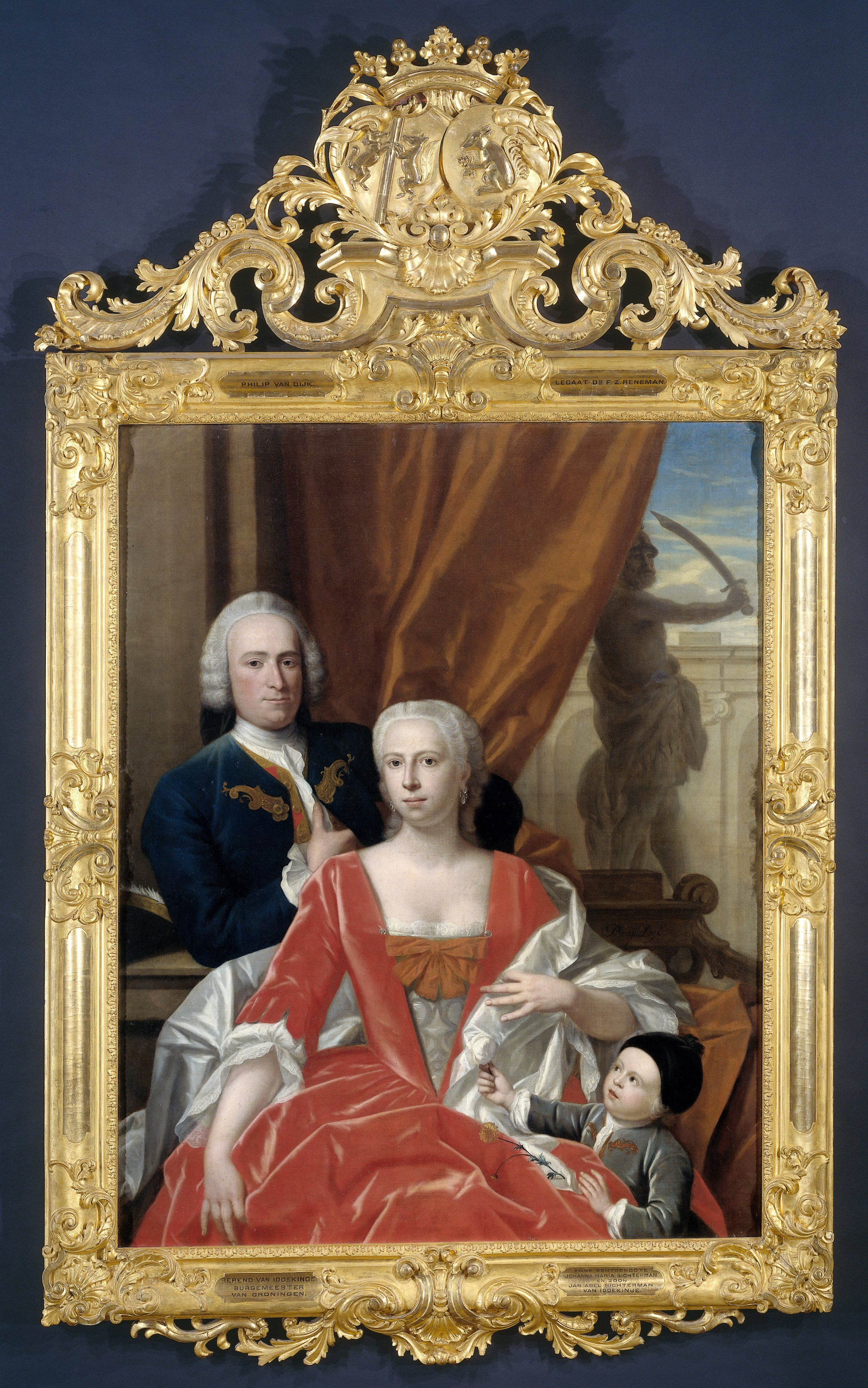 Family portrait of Berend van Iddekinge (1717–1801) with his Wife Johanna Maria Sichterman (1726–1756) and their young Son Jan Albert (born 1744), sitting by a column. Behind the curtain stands a statue of a soldier with a sword.. Pendant of File:Francina Margaretha Sichterman and Scato Gockinga and their daughterTateke Helena, by Philip van Dijk.jpg.